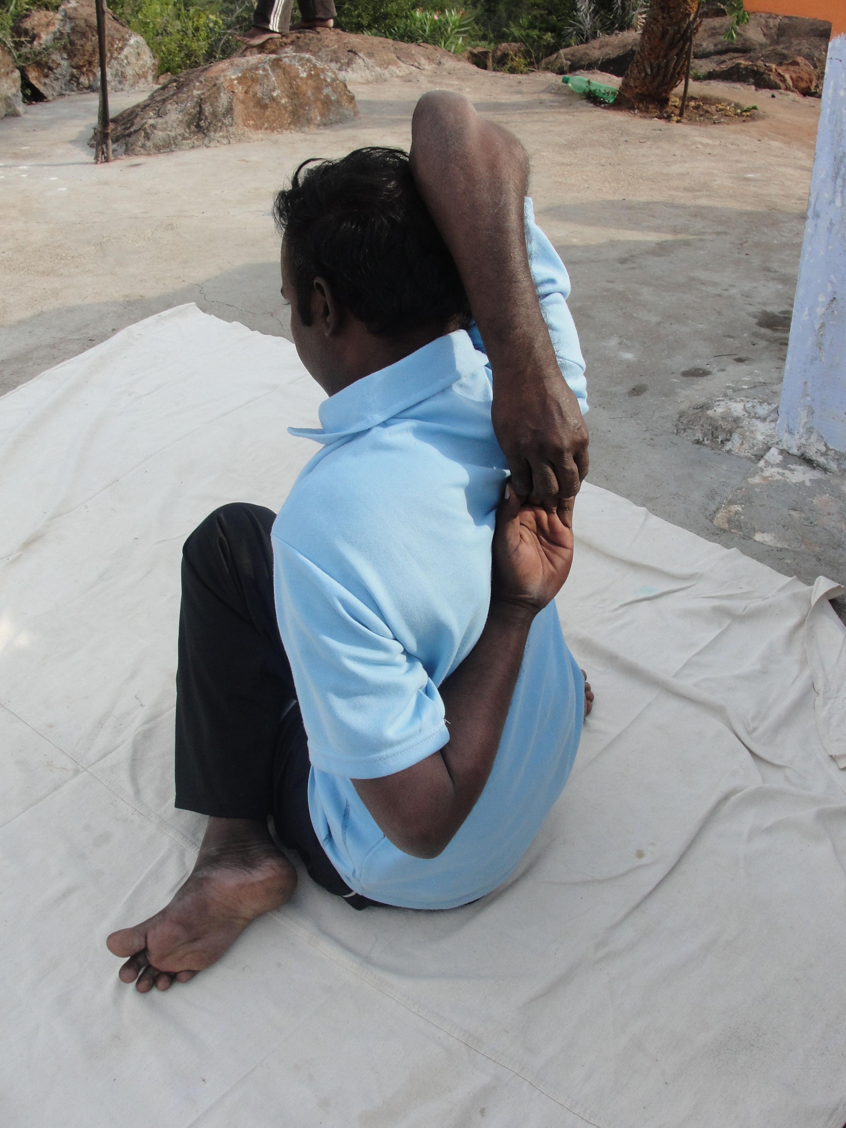 A style of Gomukhasana 2